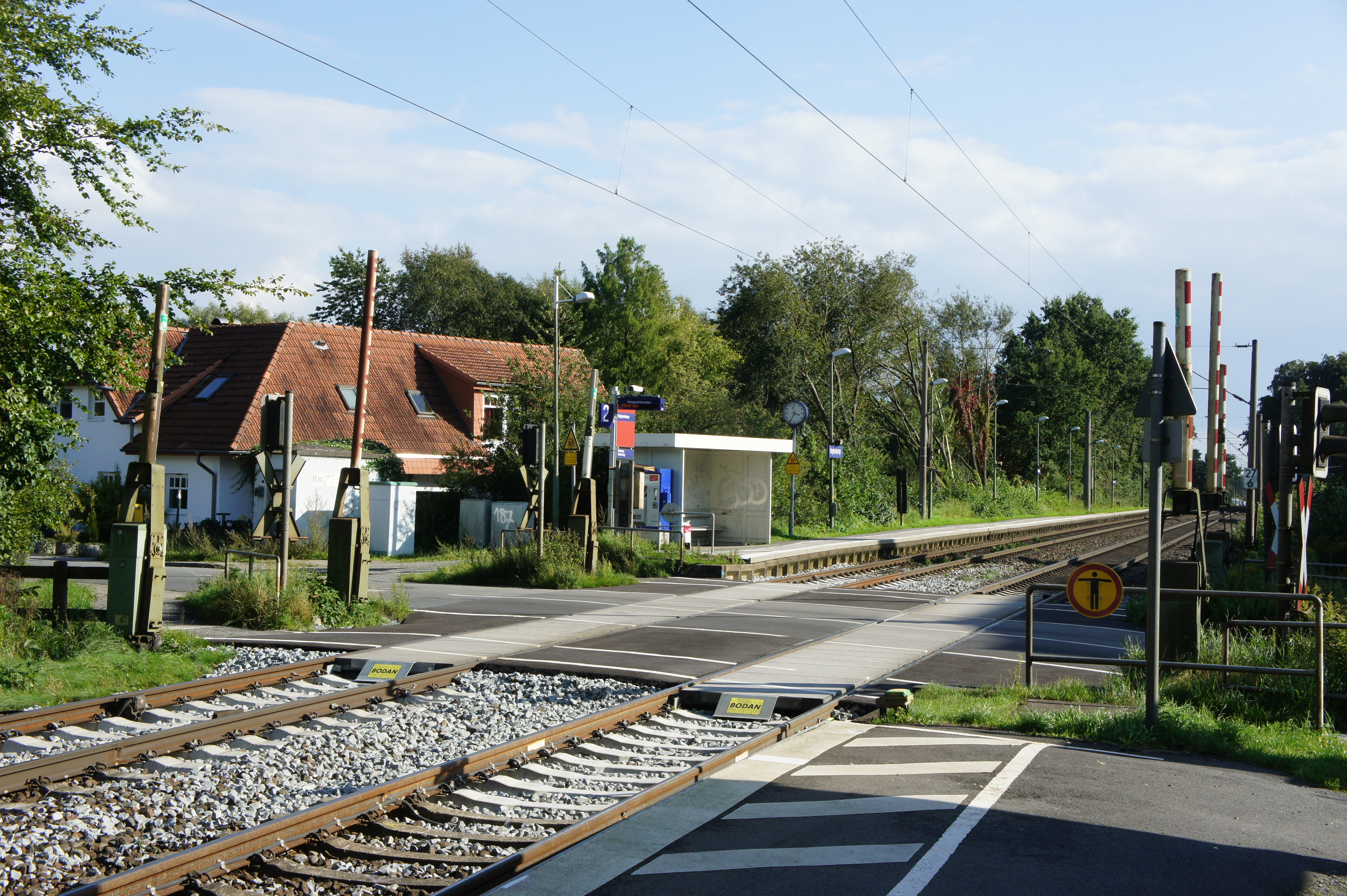 Railway halt Hoykenkamp